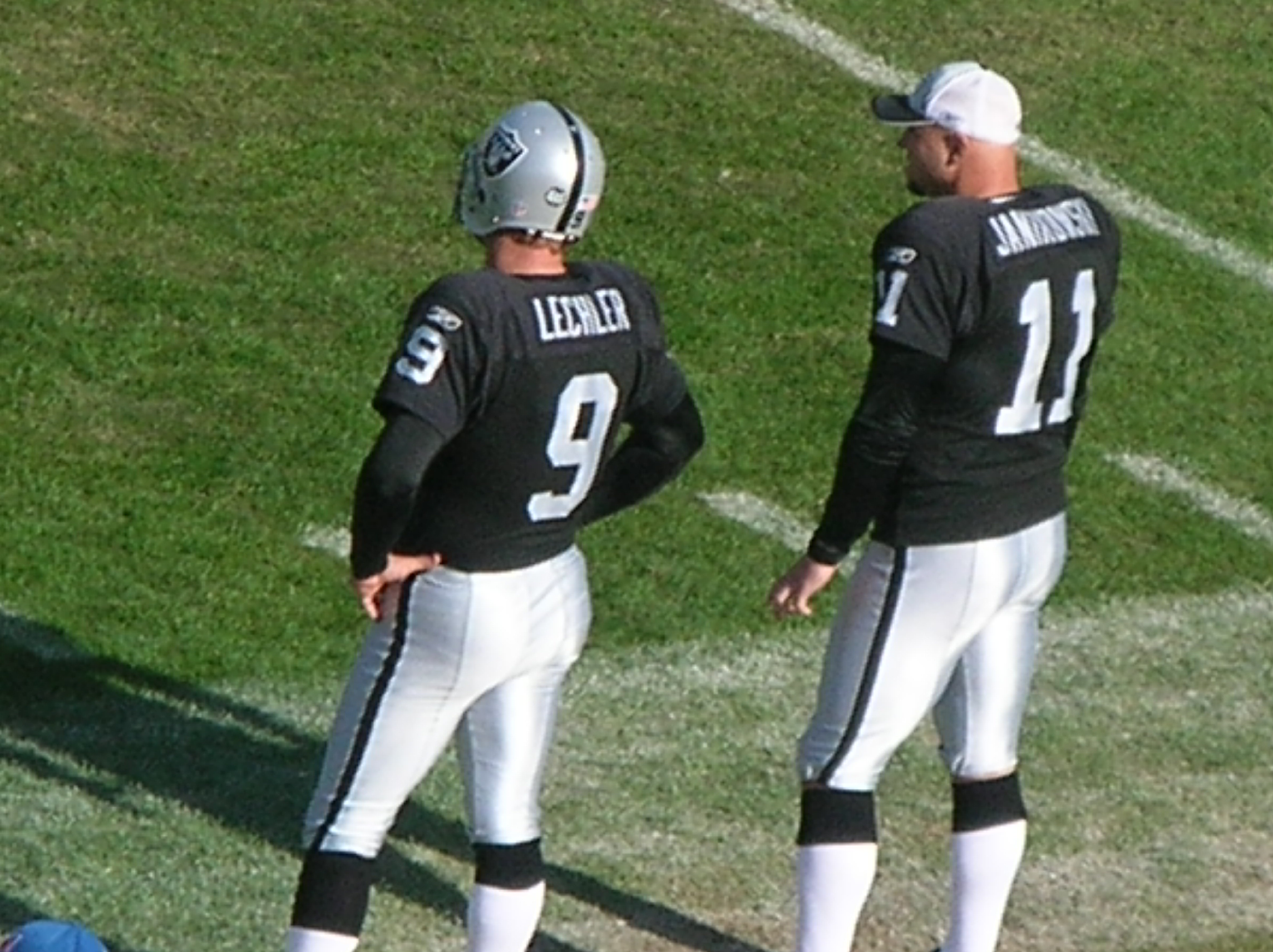 Oakland Raiders punter Shane Lechler (left) and kicker Sebastian Janikowski at a home game against the Atlanta Falcons. The Falcons won 24-0.